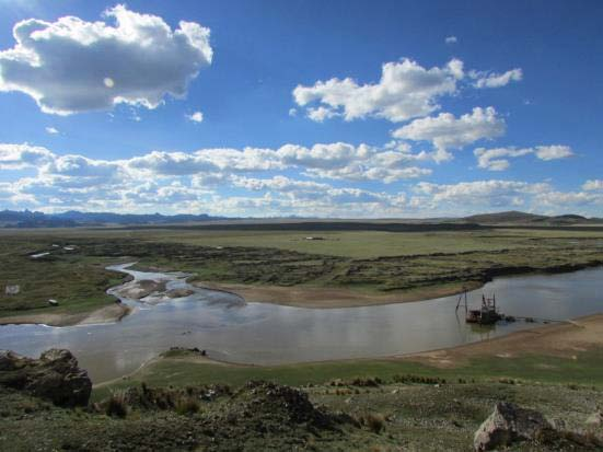 View of Pumpu from the storehouses of Shongoymarca. The Inca city of Pumpu is connected by a river to the Chinchaycocha lagoon.